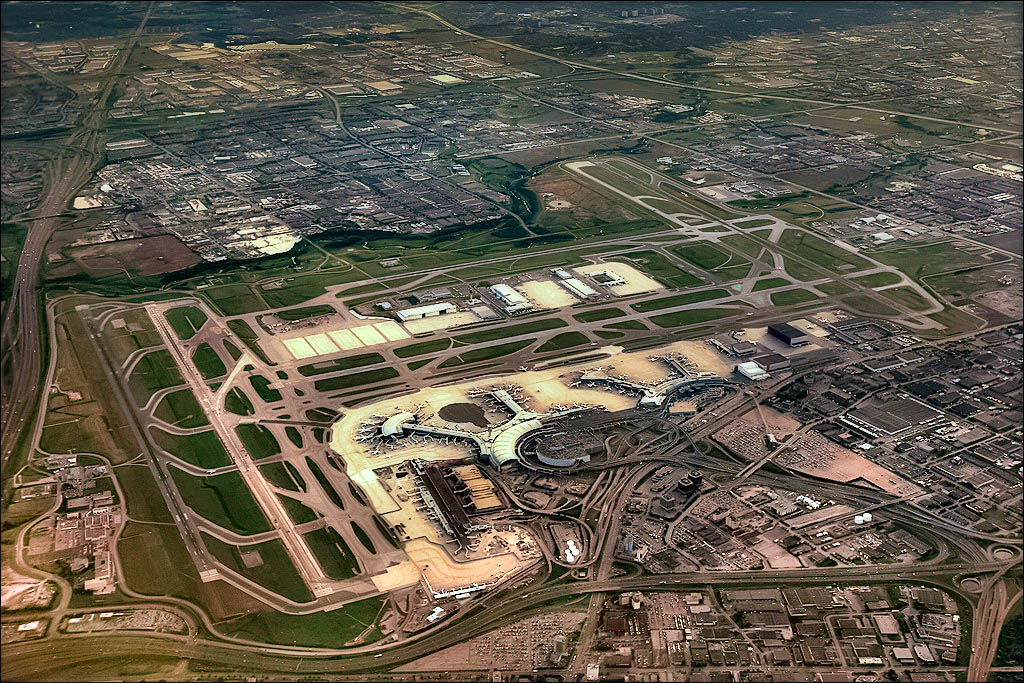 Aerial view of Toronto Pearson International Airport